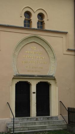 The Synagogue in Hainsfarth, Bavaria.